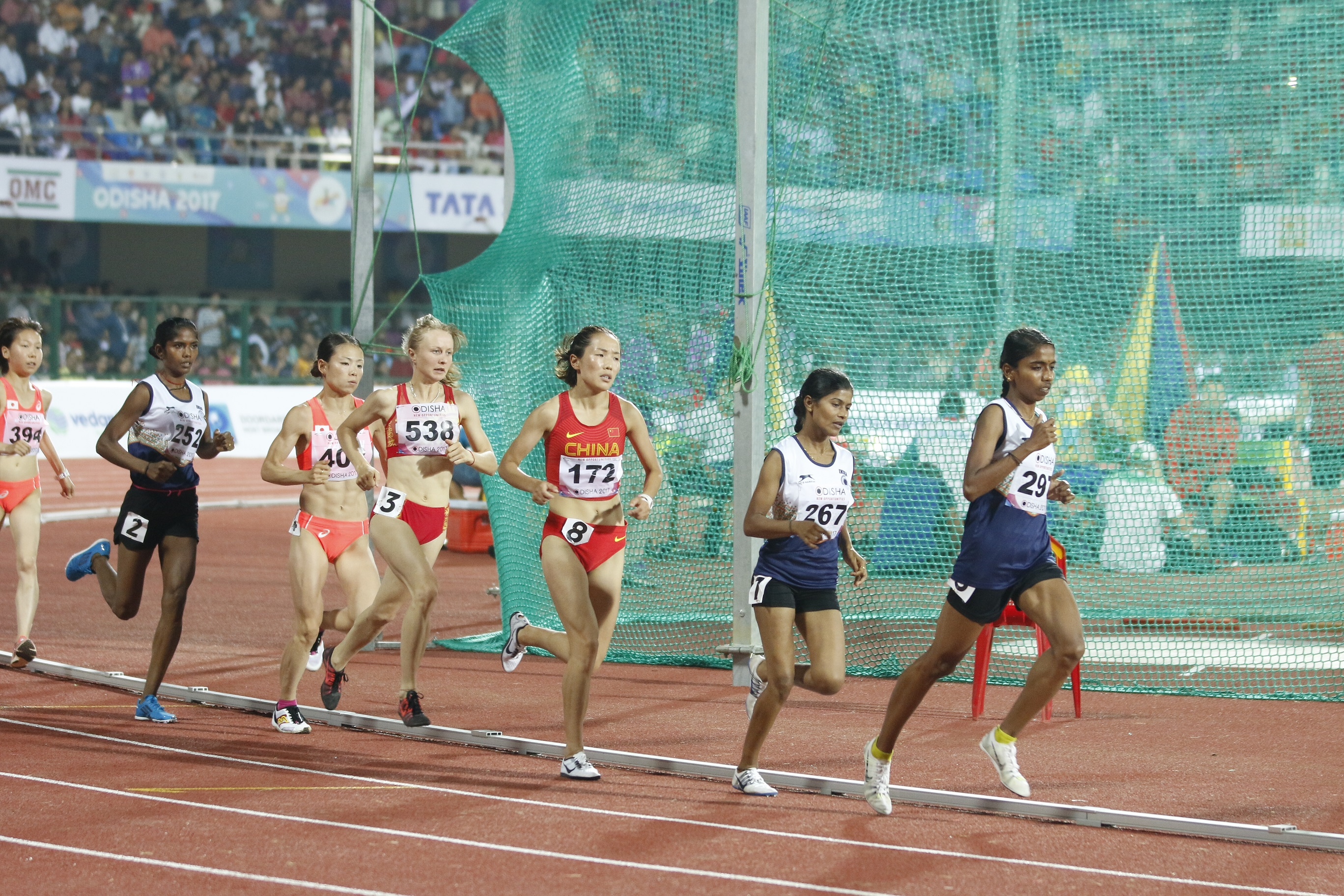 2017 Asian Athletics Championships at the Kalinga Stadium in Bhubaneswar, India. 1 Alia Mohammed 741 UNITED ARAB EMIRATES 2 Meenu . 252 INDIA 3 Daria Maslova 538 KYRGHIZSTAN 4 Mizuki Matsuda 408 JAPAN 5 L. Suriya 297 INDIA 6 Yuka Hori 394 JAPAN 7 Sanjivani Jadhav 267 INDIA 8 He Yinli 172 CHINA